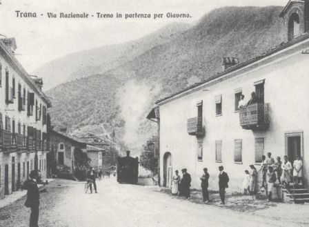 Trana, via Nazionale in 1890